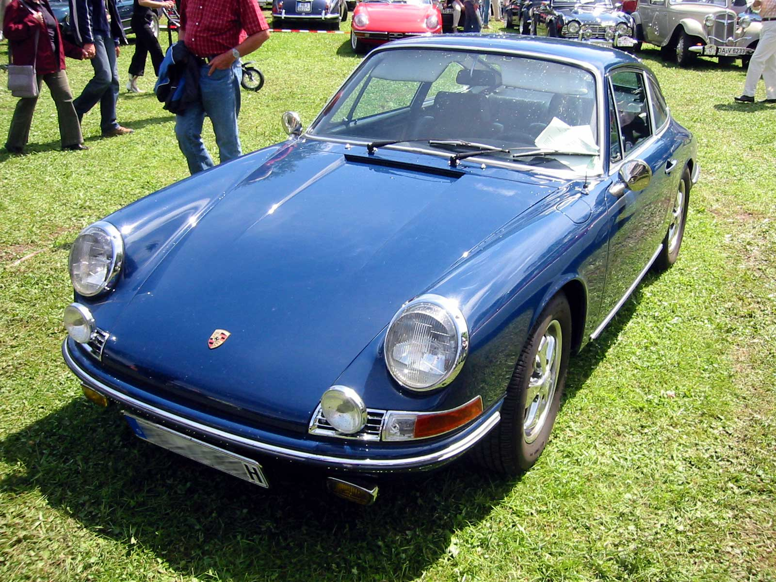 Porsche 912